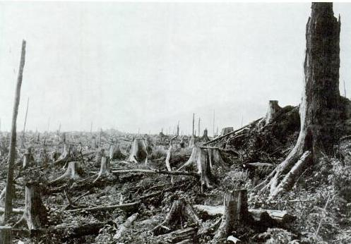 A logged-out slope of Mount Mitchell in Yancey County, North Carolina, United States.